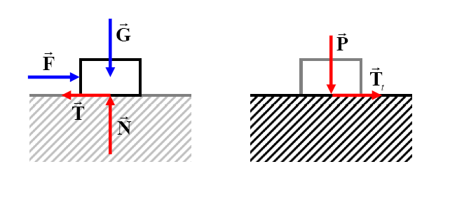 Friction (T); body on a horizontal plane